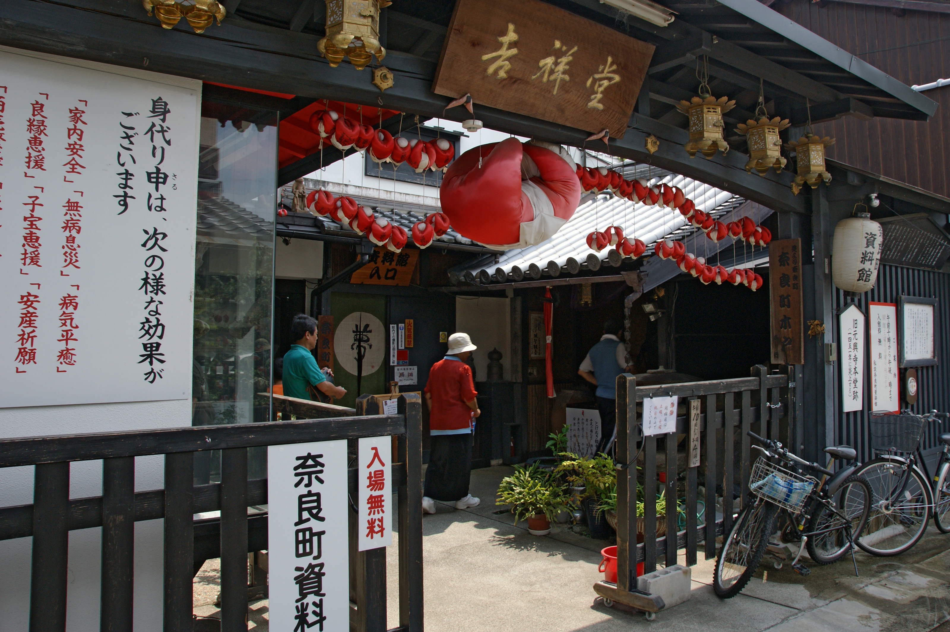 Naramachi in Nara, Nara prefecture, Japan